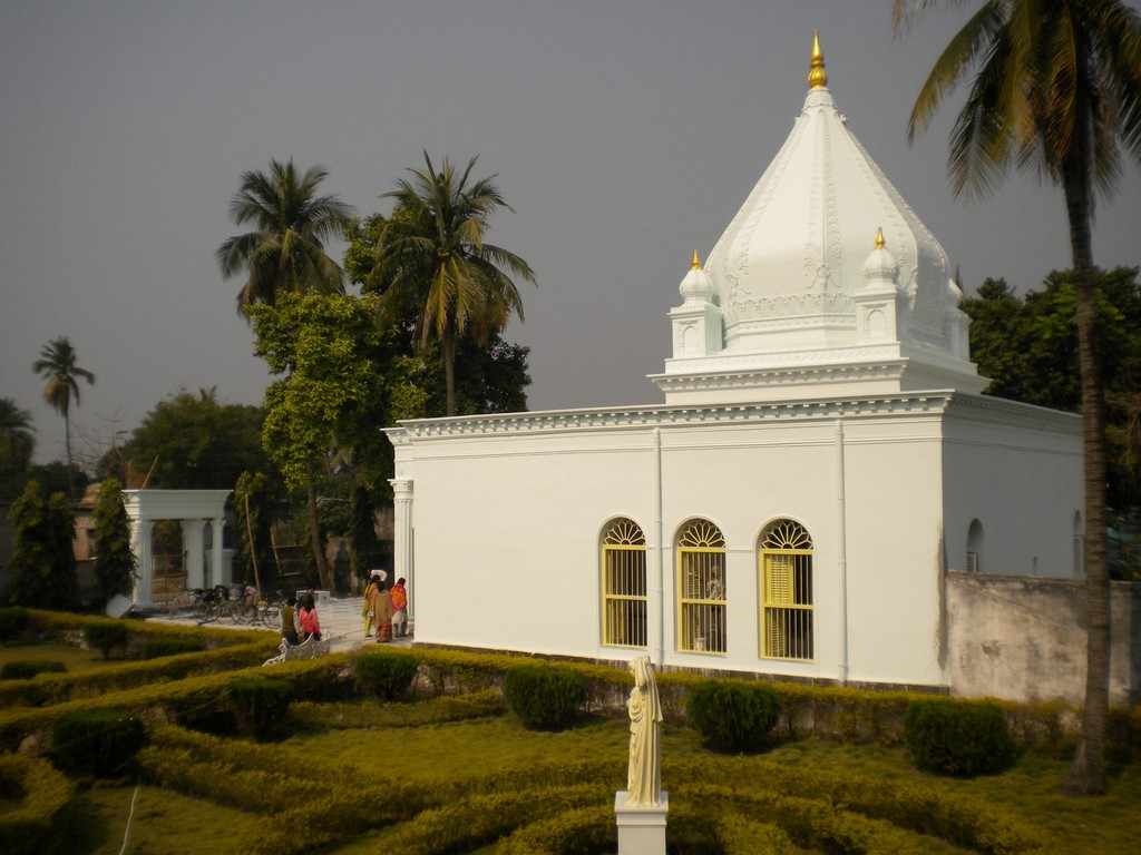 Jain temple inside Jagat seth house